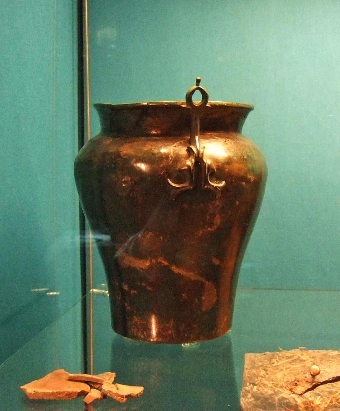 Urn from the Lombard grave field at Putensen Putensen, community of Salzhausen, district of Harburg, Germany Elbe Germanic cremation grave field with 988 interments. After cremation on a funeral pyre, the dead were generally interred in ceramic urns. A few cremated remains were, however, discovered in metal urns, which were Roman imports. Due to its characteristic weapon graves, Putensen is counted among the classic Lombard grave fields. Photographed while on display from 22 August 2008 to 11 January 2009 in the exhibition "Die Langobarden. Das Ende der Völkerwanderung" at the Rheinisches LandesMuseum Bonn. On loan from the Archäologisches Museum Hamburg.